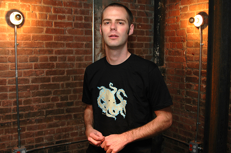 For Defunker.Jason Kottke, wearing Octopus